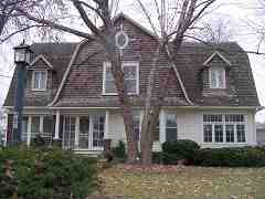 Phil Hoffman House as photographed by owner. This is not the same houses as the Phillip Hoffman House on the 300 block of High Ave.